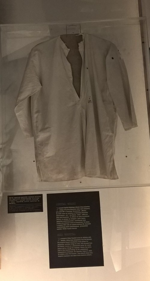 Warsaw Rising Museum. Men's shirt with the bullet hole which belonged to Eugeniusz Trepczyński - worker of th Wolski Hospital who survived the Wola massaccre.